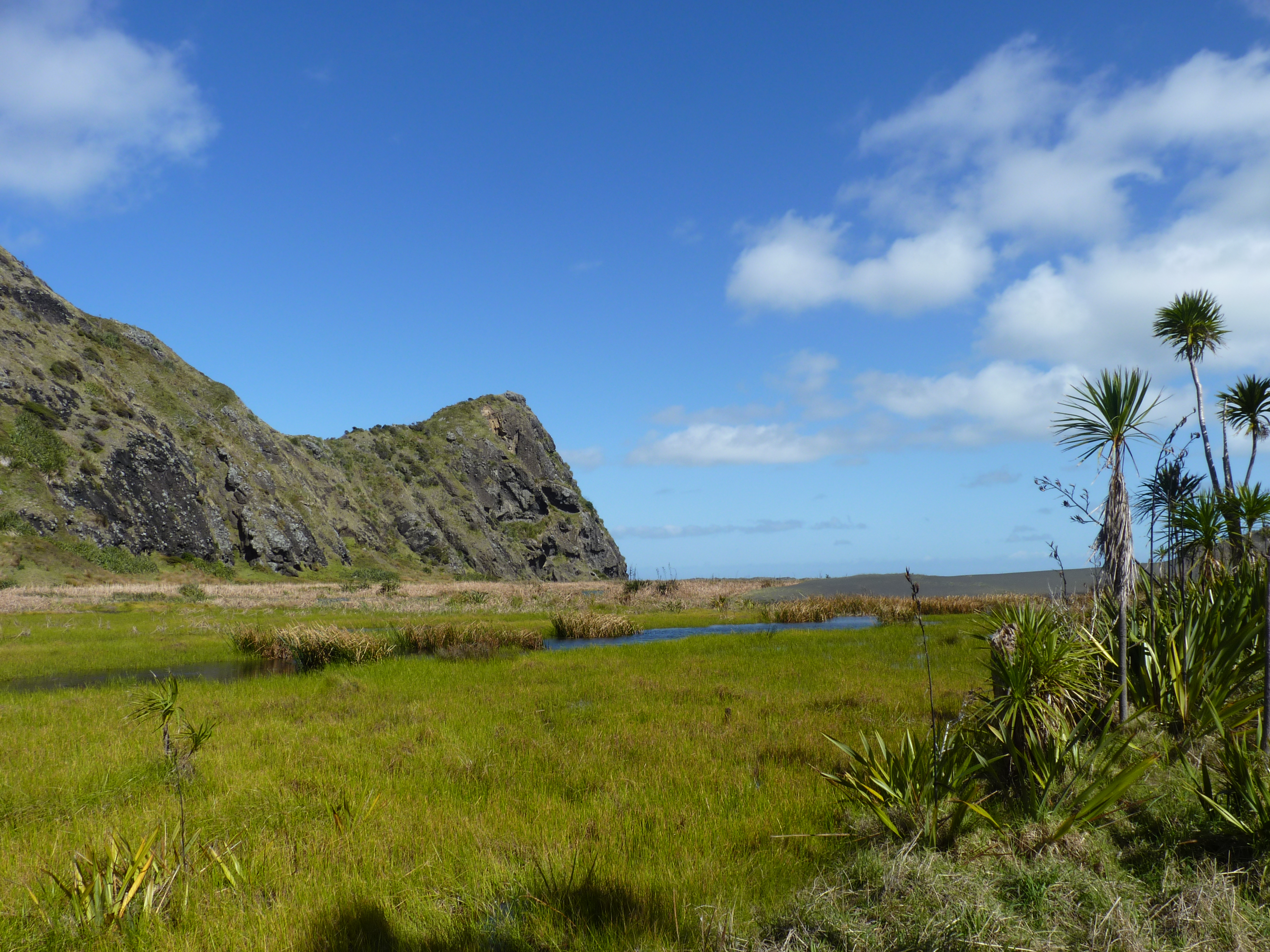 Zion Hill Track in Waitakere Ranges, New Zealand